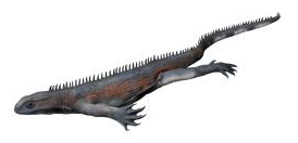 Life reconstruction of Vadasaurus herzogi